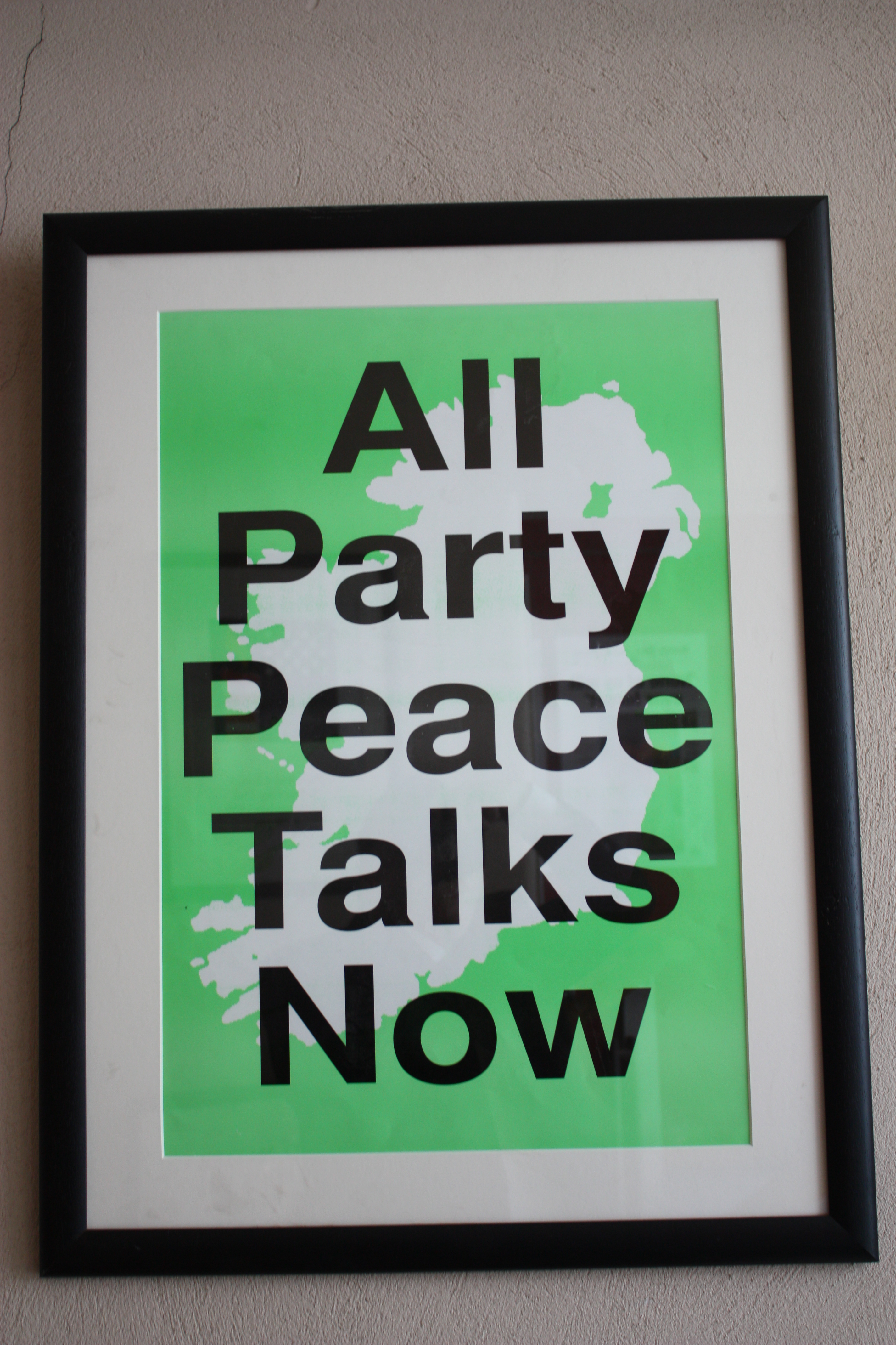 "All Party Peace Talks Now" (Sinn Fein, 1995), Troubled Images Exhibition, Linen Hall Library, Donegall Square North, Belfast, Northern Ireland, August 2010